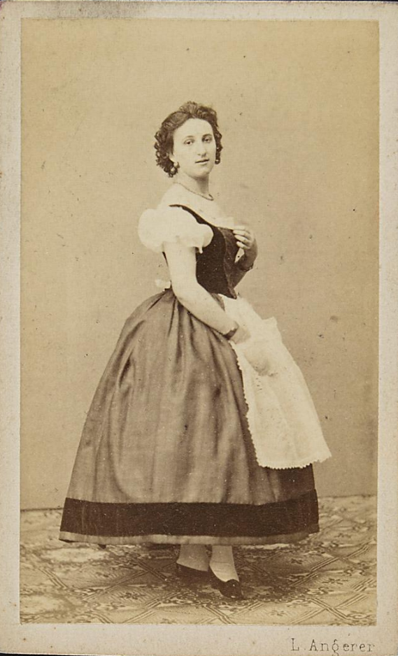 Anna Marek (d. 1916), Austrian coloratura singer, in a country costume. Photograph by Ludwig Angerer (1827-1879)